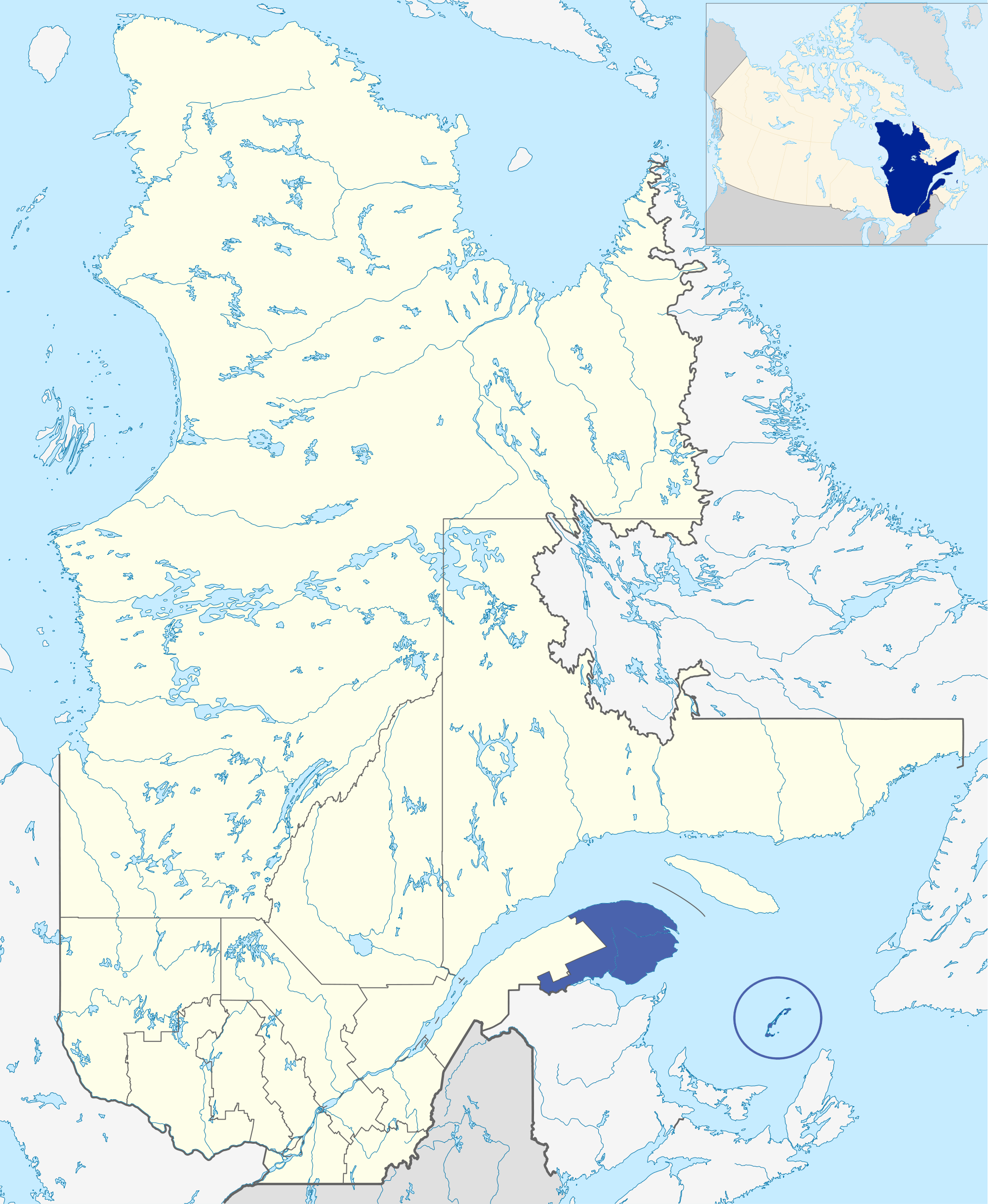 Location map for the Gaspésie-Îles-de-la-Madeleine (Quebec - Canada).